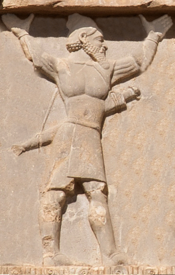 Xerxes detail Hidush